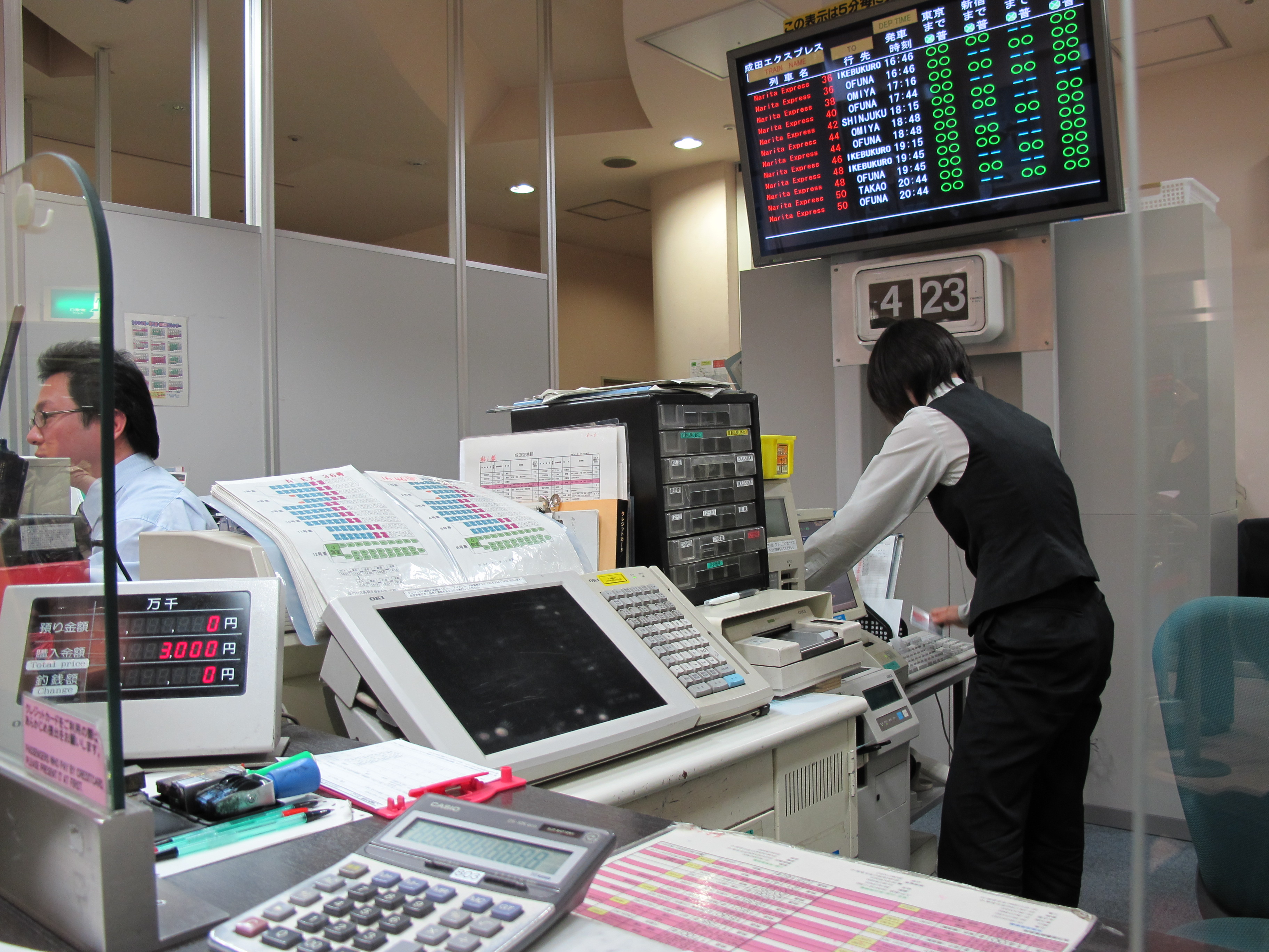 Buying Train tickets